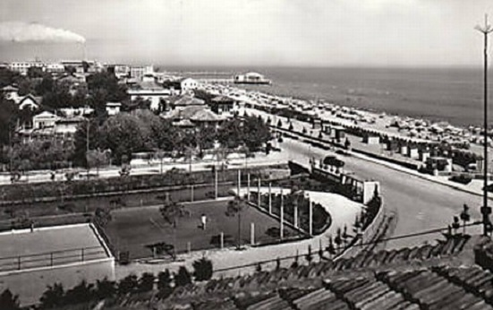 old photograph of Senigallia